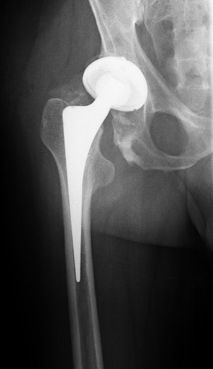 Hip-Joint, total Replacement, insertion without bone-cement Quelle: eigene Aufnahme Autor: User:Scuba-limp